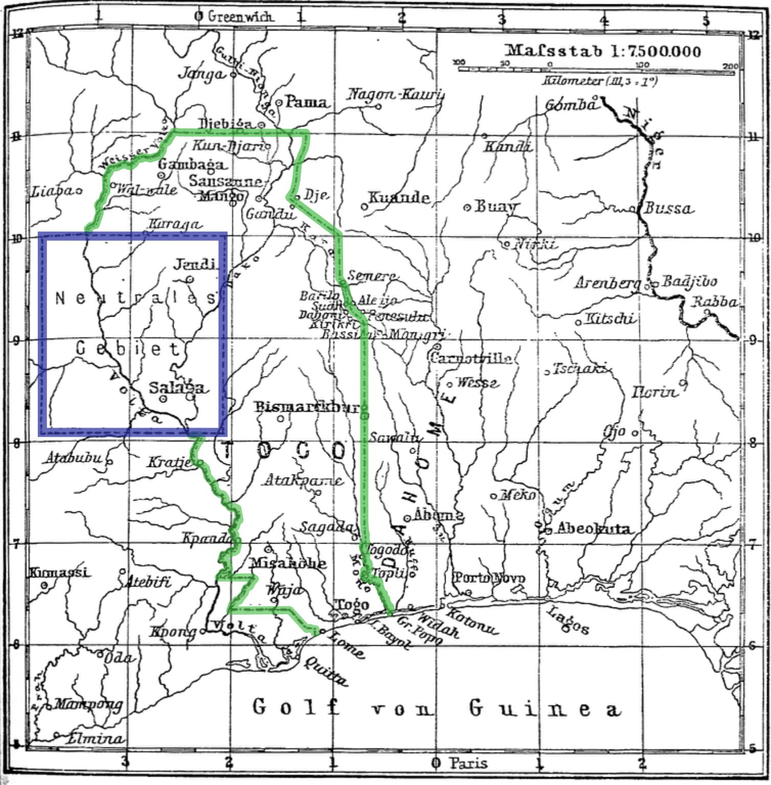 The borders of Togo in 1897 with the so-called "Salaga-area", which has stood as a neutral zone as regards the scope of British and German political interests in the hinterland of the Gold coast and Togo coast from 1890 to 1899 under an intergovernmental agreement.